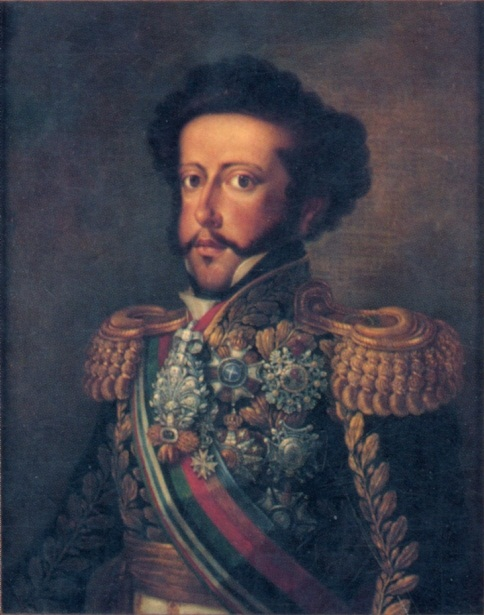 Portrait of the emperor D. Pedro I, with imperial garment.